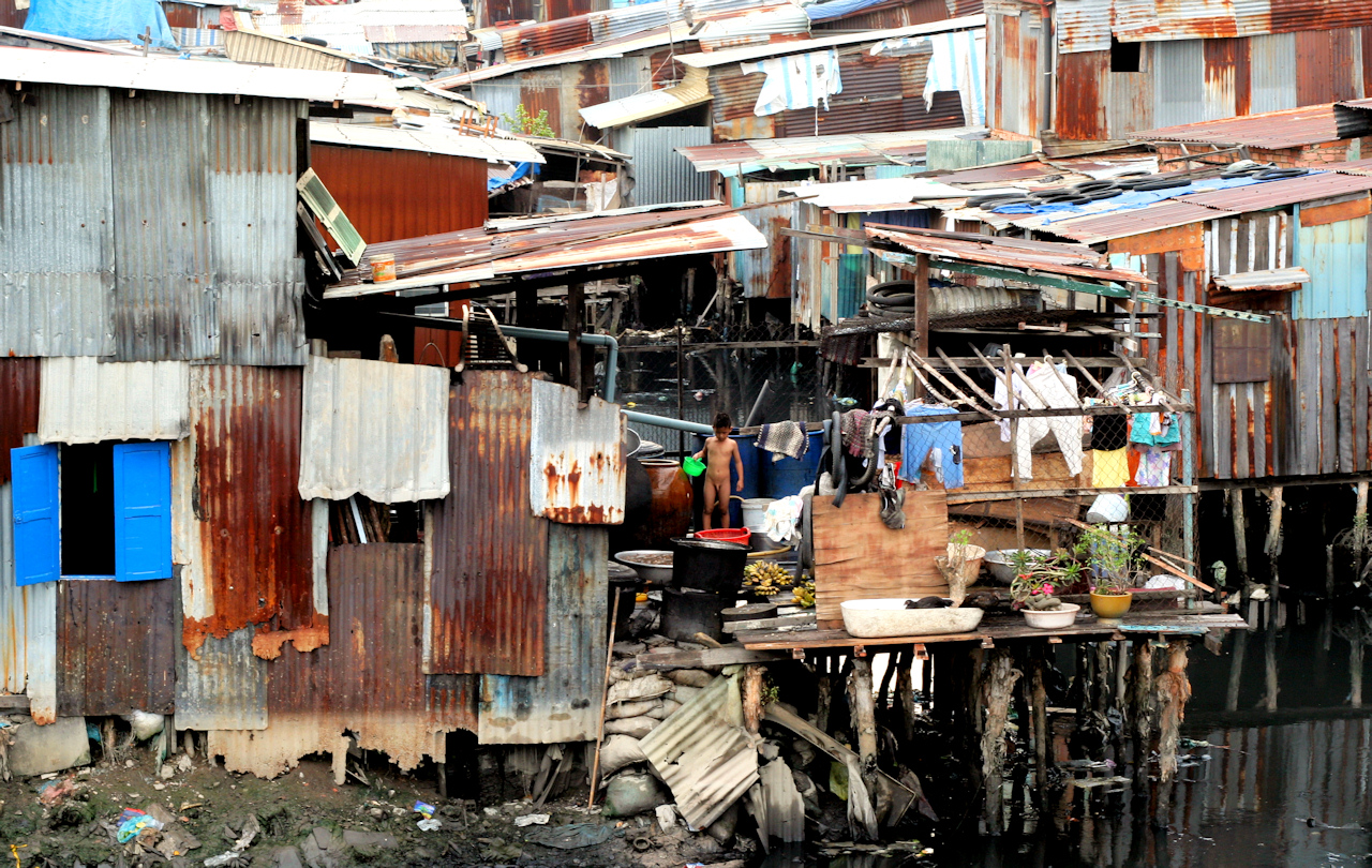 Slums by a canal in Ho Chi Minh City.